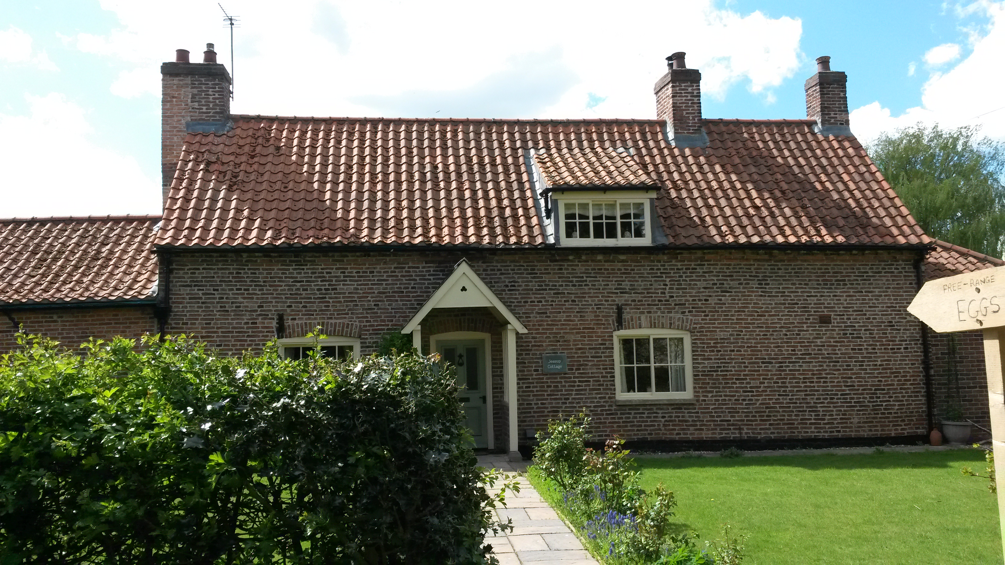 Jessup Cottage, the oldest house in Skellingthorpe. Photo taken from Green Lane.